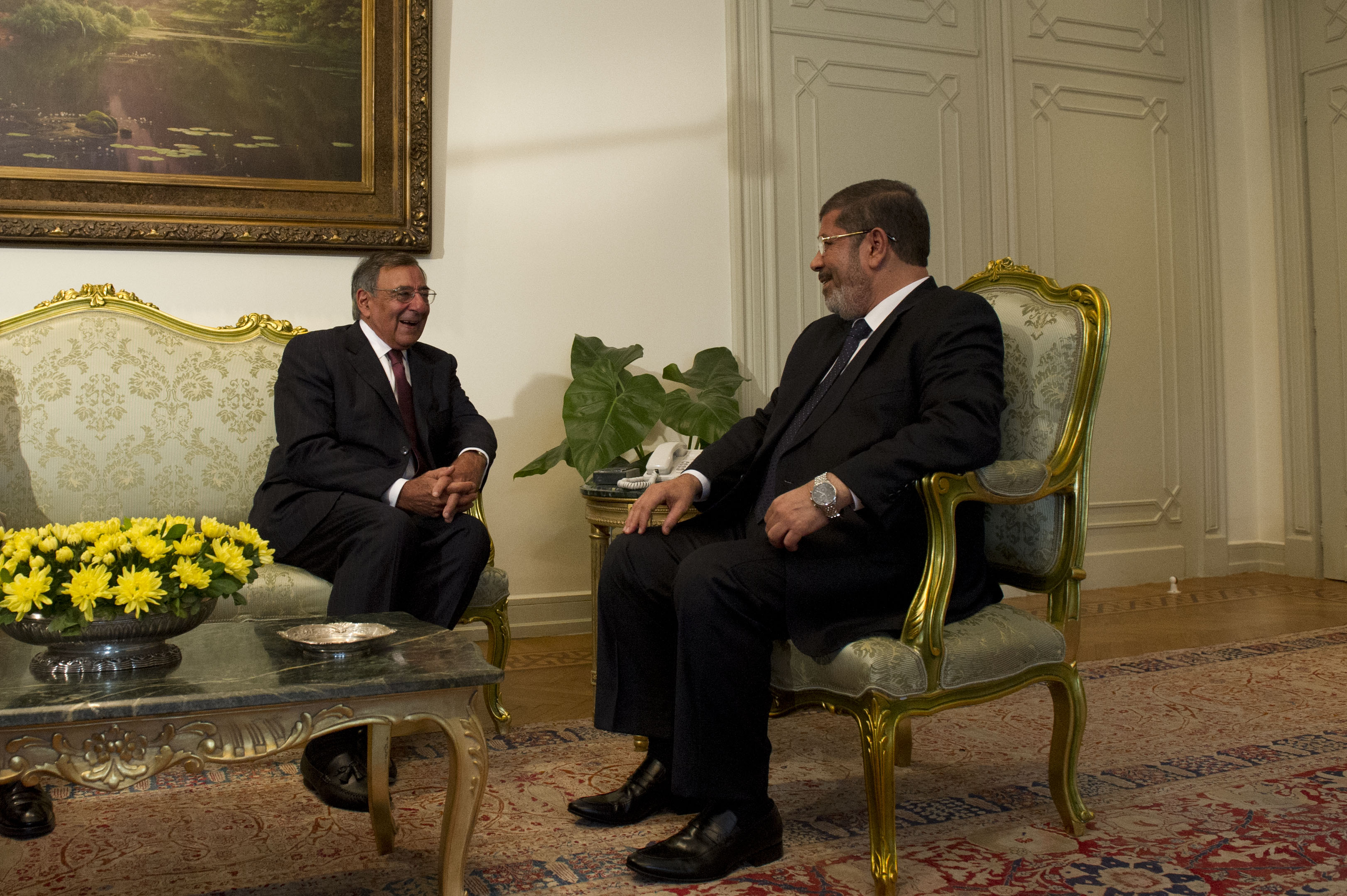 Secretary of Defense Leon E. Panetta meets with Egyptian President Mohamed Morsi in Cairo, Egypt, July 31, 2012. Panetta is on a 5 day trip to the region stopping in Tunisia, Egypt, Israel and Jordan to meet with counterparts. DoD photo by Erin A. Kirk-Cuomo (Released)